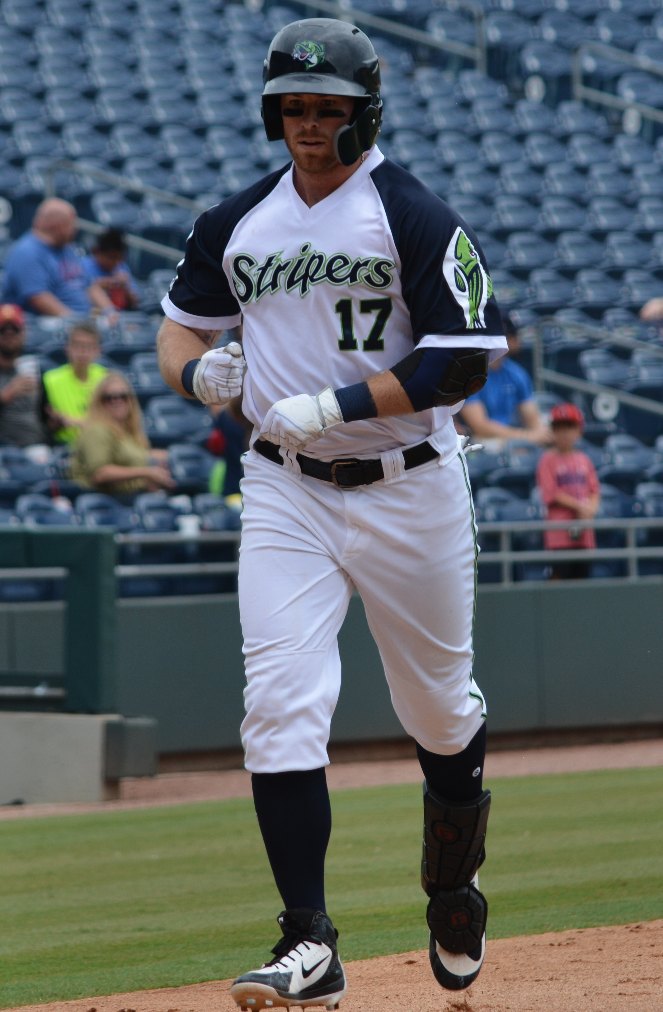 Michael Reed of the Gwinnett Stripers jogging down the third baseline during a 2018 game at Coolray Field in Gwinnett, Georgia